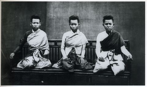 Khmer lady in 1800s